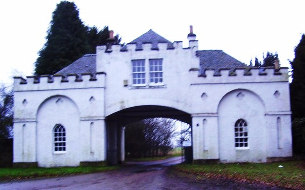 North Lodge, Salton Hall